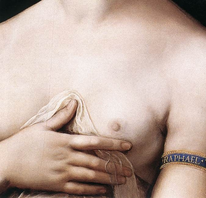 signs of a breast tumour